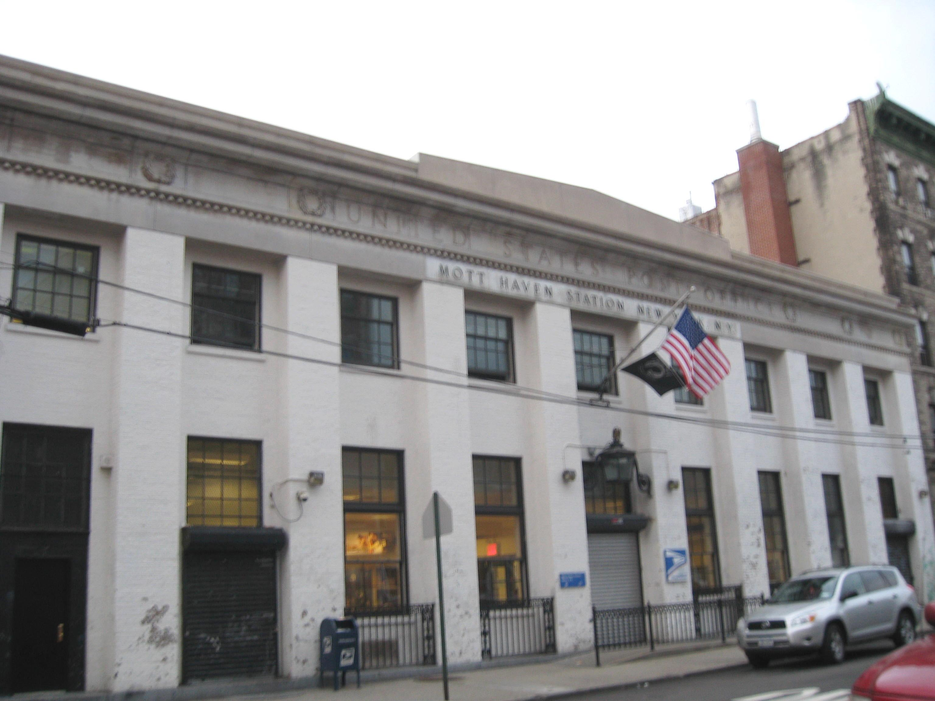 Looking northeast at Mott Haven Station of US Postal Service on a cloudy late afternoon. ZIP 10454.